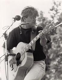 DW Drouillard performing at the Apple Valley Family Folk Festival in Southington, CT.